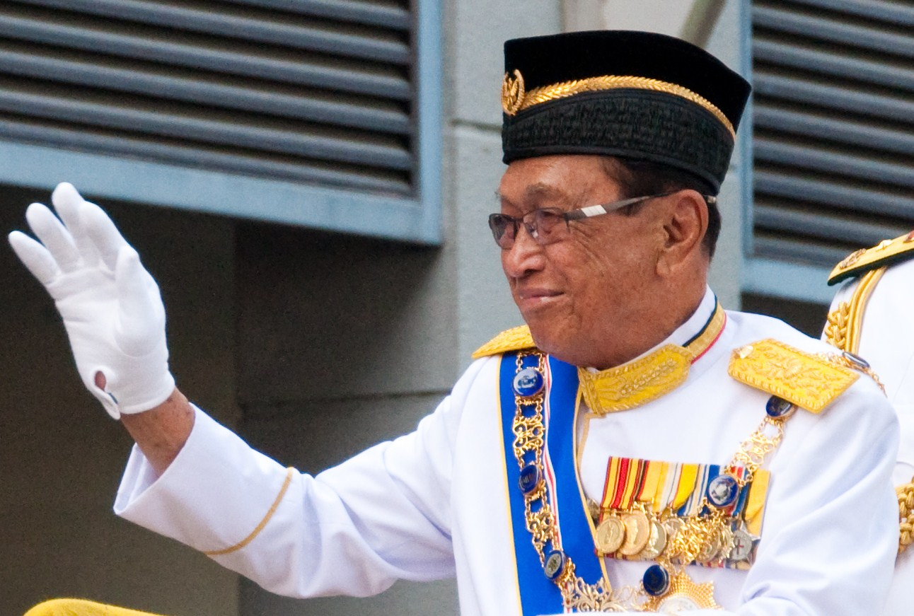 Sarawak governor (Abang Muhammad Salahuddin) addressing the people during his birthday celebration parade.